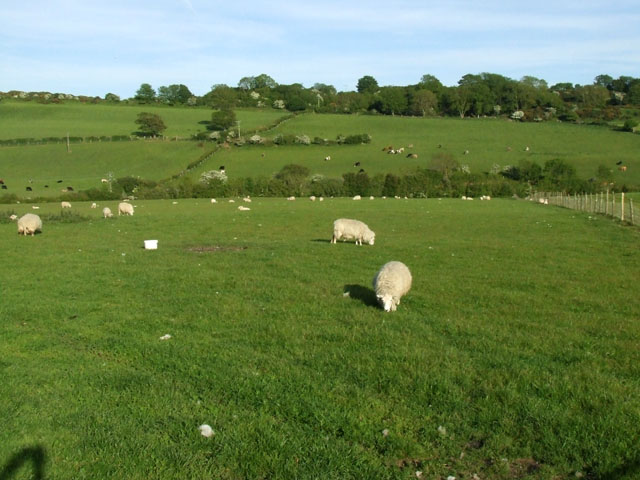 Sheep grazing near to Pentraeth. View of sheep grazing in a field near to Pentraeth. The line of trees across the middle of the photo mark the route of the old railway line to Benllech